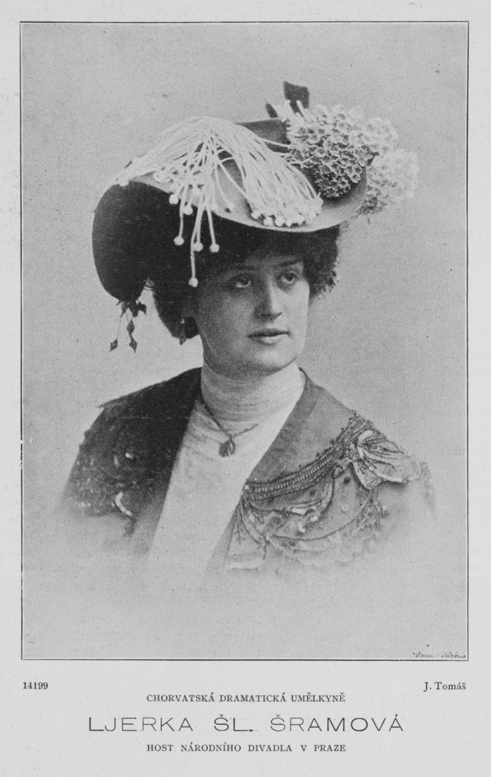 Portrait of Ljerka Šram (1874-1913), Croatian actress that performed in Prague that year. Captioned as "Ljerka šl. Šramová", indicating her noble origin ("šl. = abbrev. for "šlechtic / šlechtična", nobleman / noblewoman) and with a Czech female suffix -ová. Photo is watermarked by Unie-Vilím, printworks managed by Jan Vilím (1856-1923).